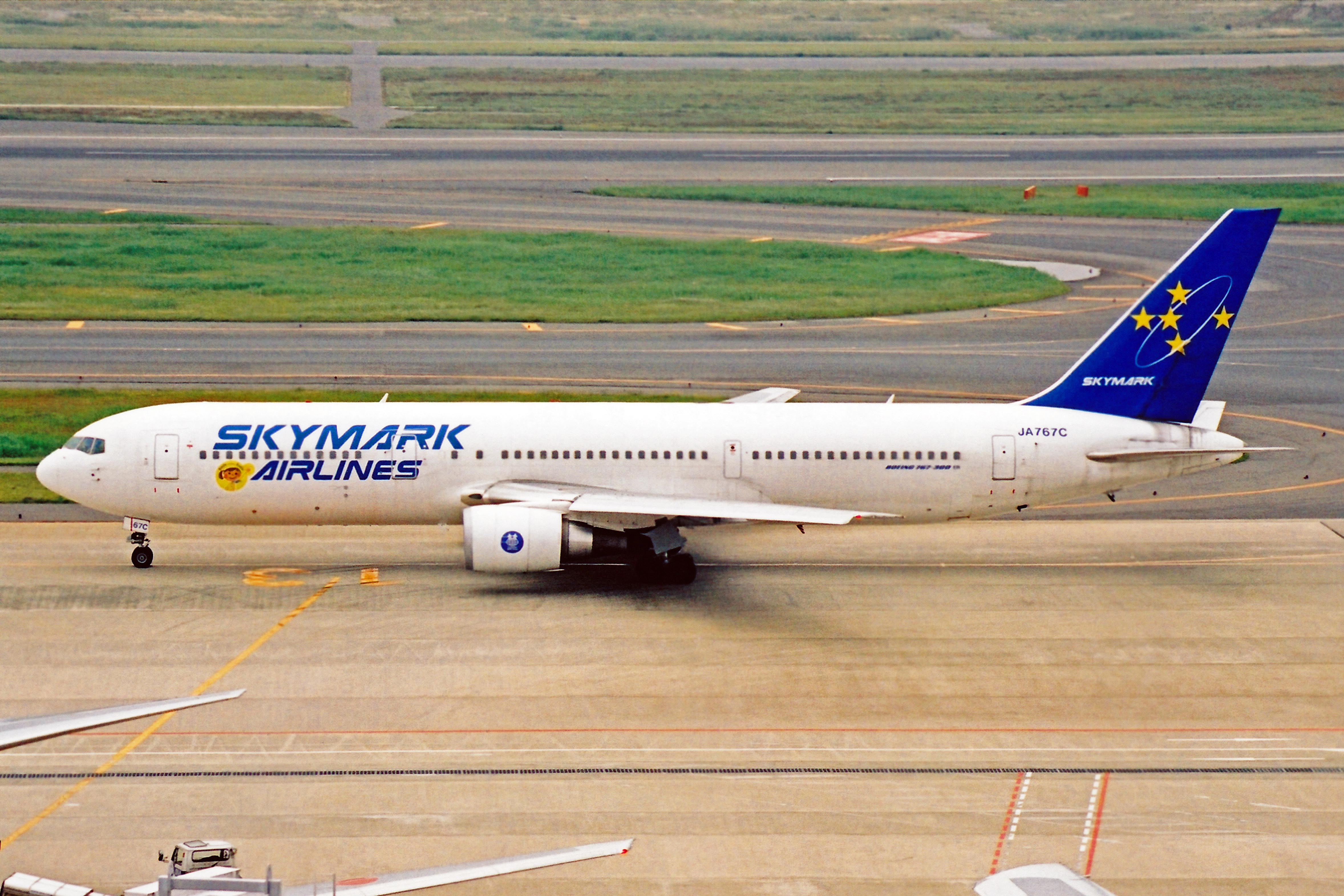 JA767C B767-3Q8ER Skymark Airlines HND